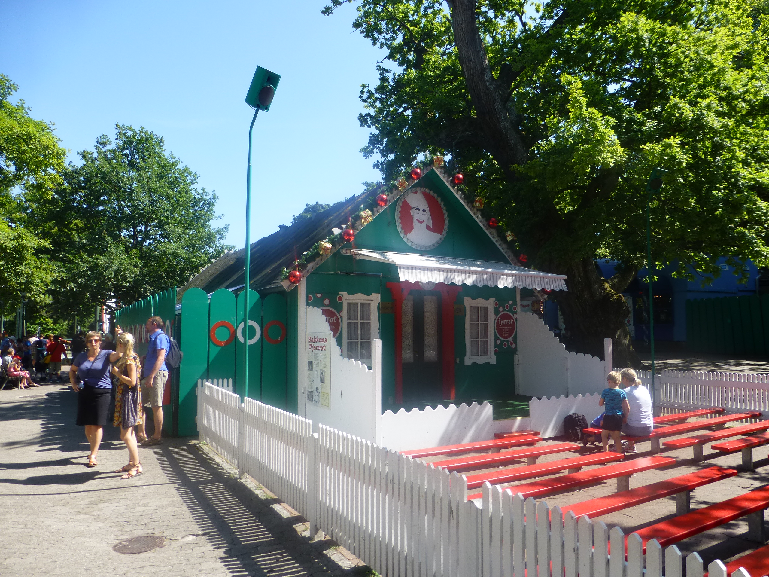 The amusement park Dyrehavsbakken north of Copenhagen. Pjerrots hus (House of Pierrot).